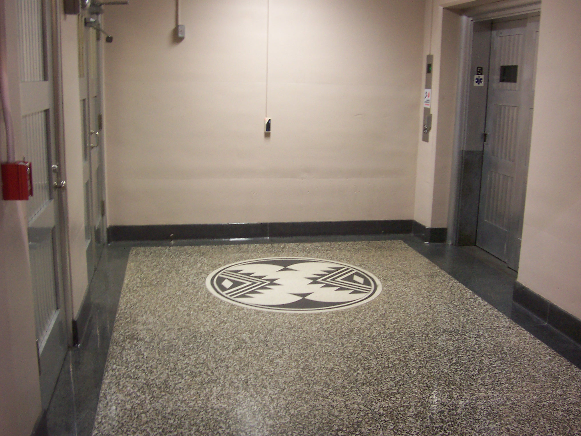 Hoover Dam's tile floor taken March 24, 2005 by User:Michael180 with Kodak EasyShare CX6330.